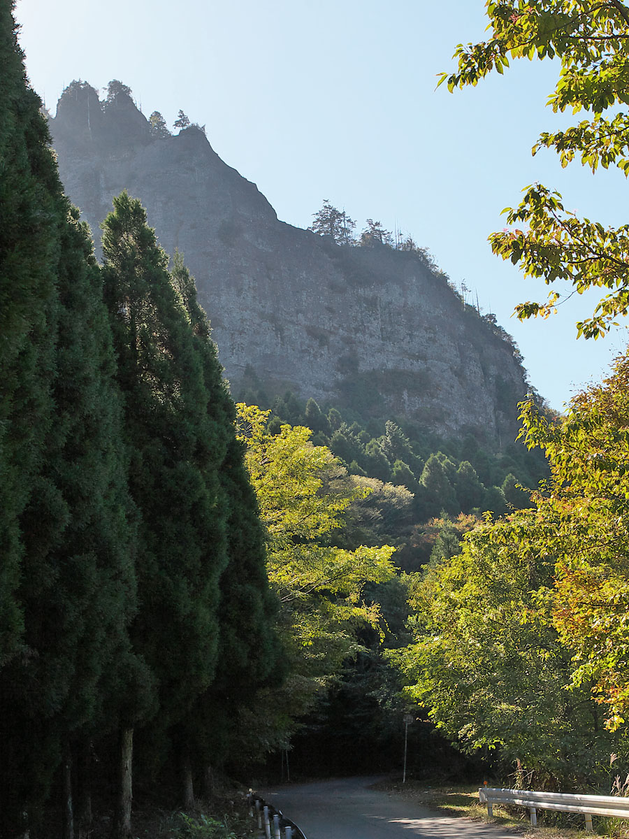 Mount Hiko